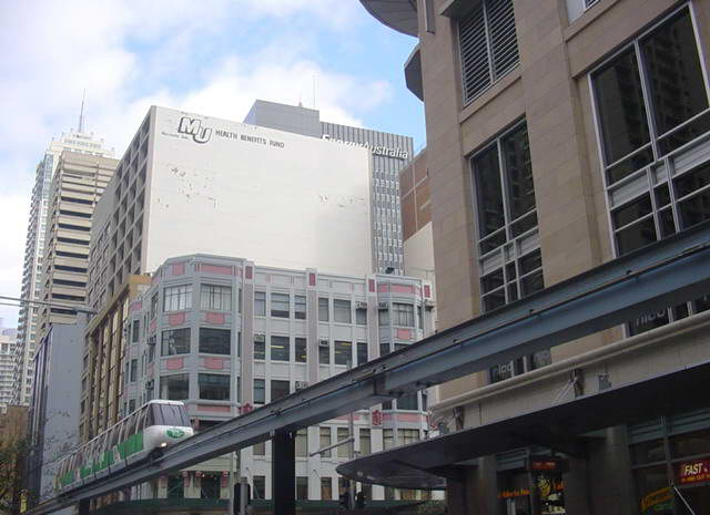 View of the Sydney monorail from the top. More pictures of Sydney at